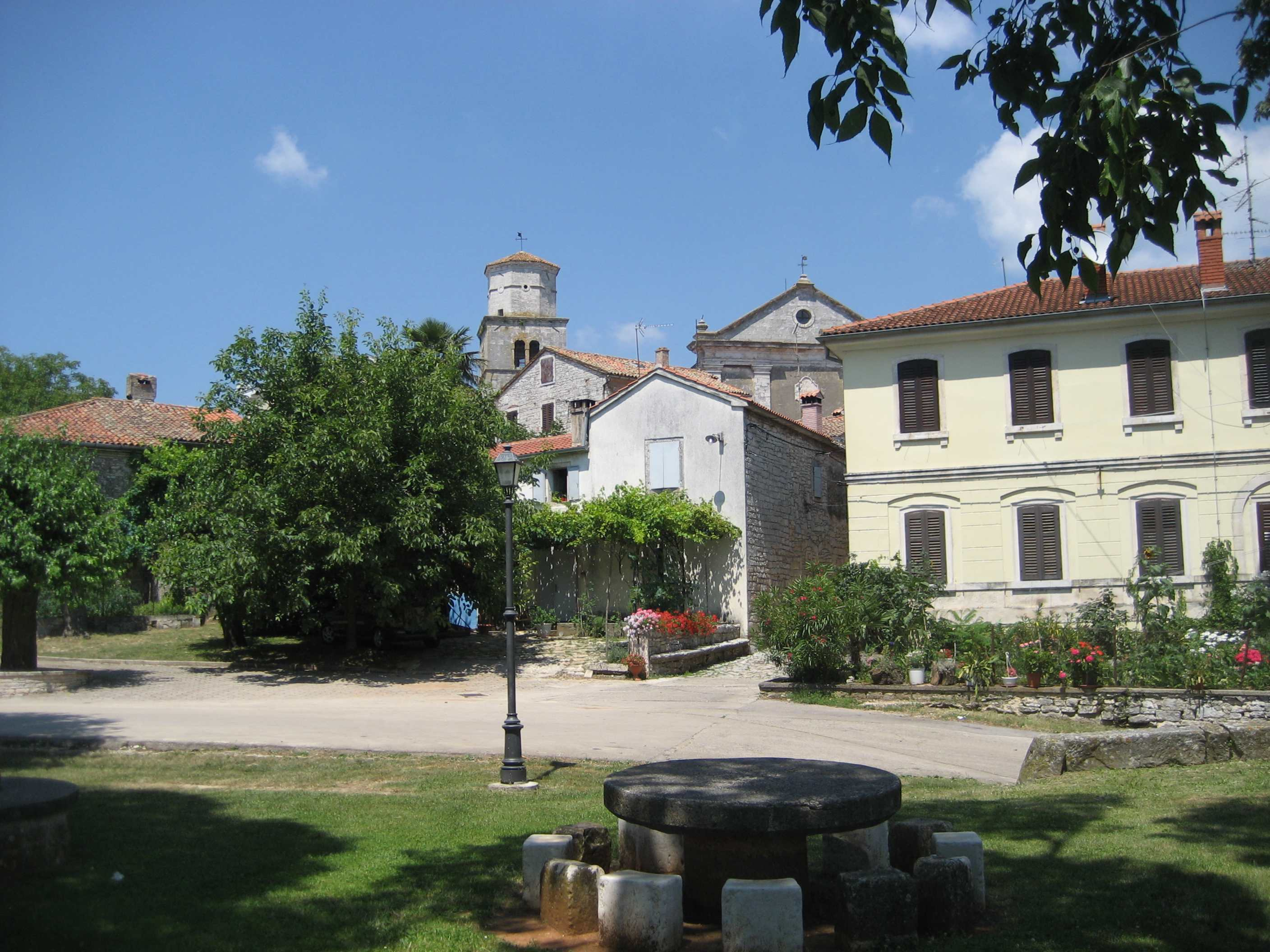 Tinjan, Croatia